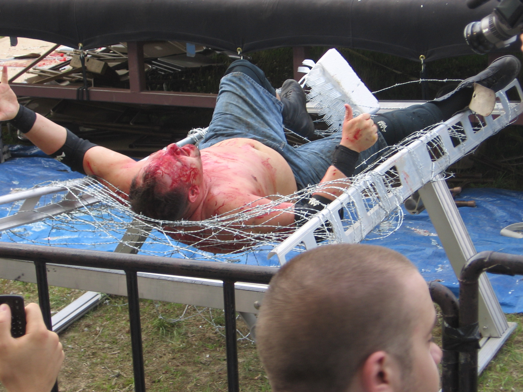 DJ Hyde thrown on a barbed wire bed